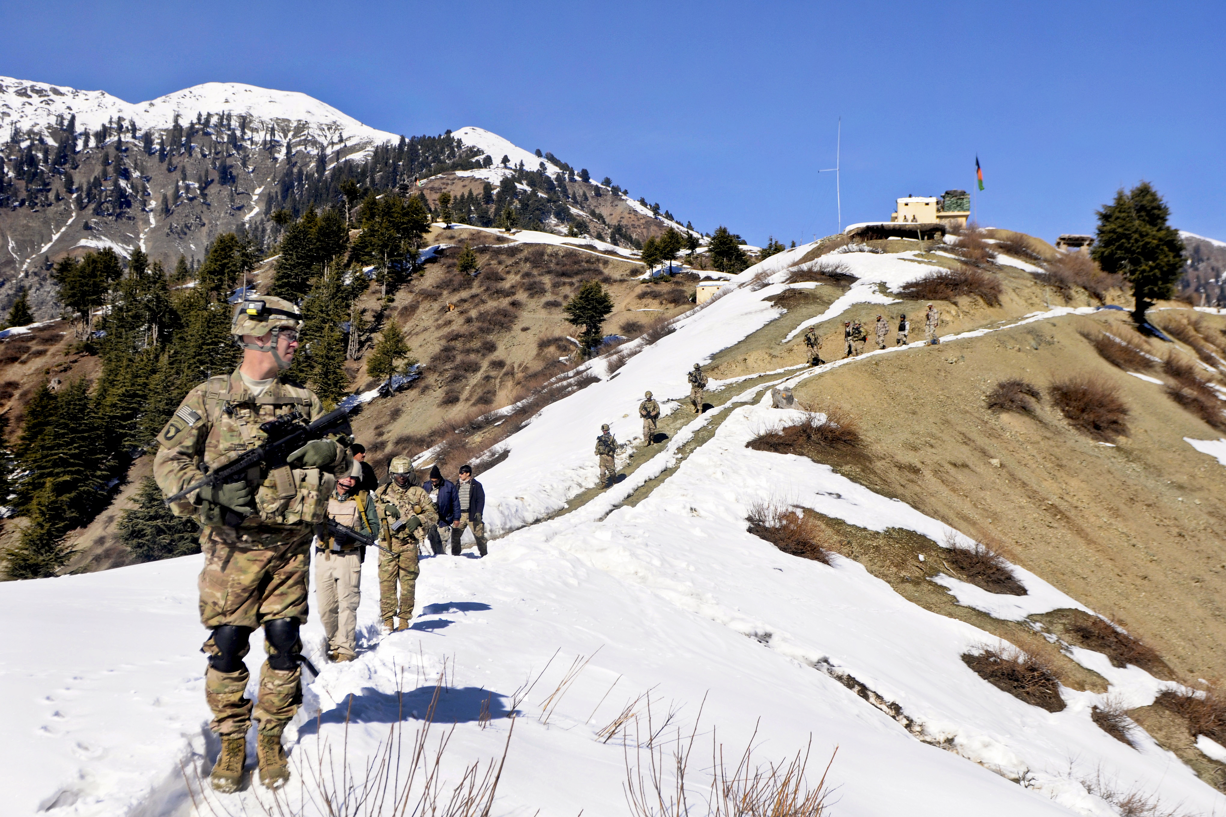 U.S. Army soldiers and Afghan Border Police (ABP) walk a snowy ridgeline as they leave Observation Point 12 along the Afghanistan-Pakistan border to a waiting UH-60 Black Hawk helicopter in the Kunar province of Afghanistan on Jan. 21, 2013.